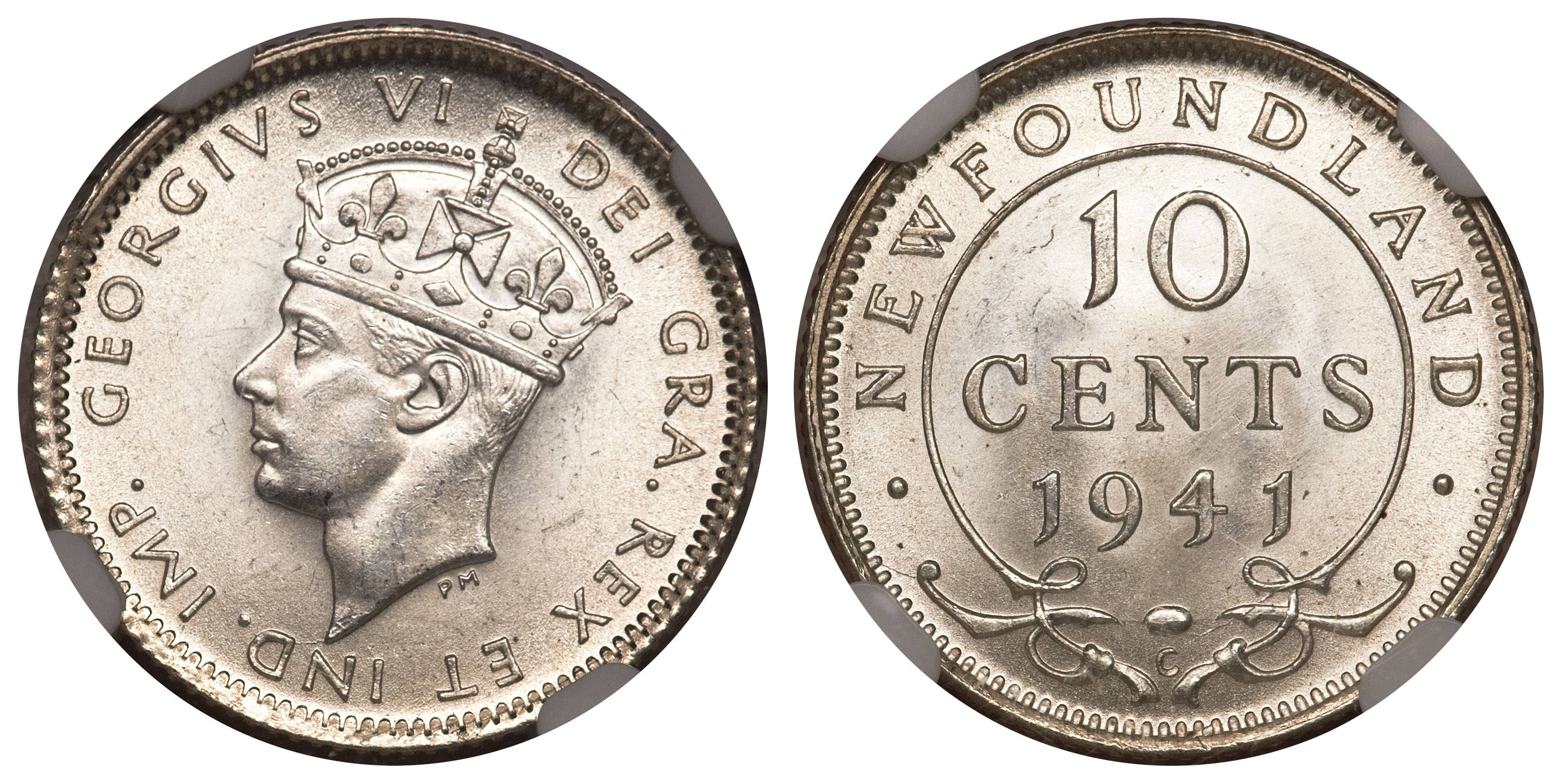 Canada Newfoundland George VI 10 Cents 1941C(3009-20996)